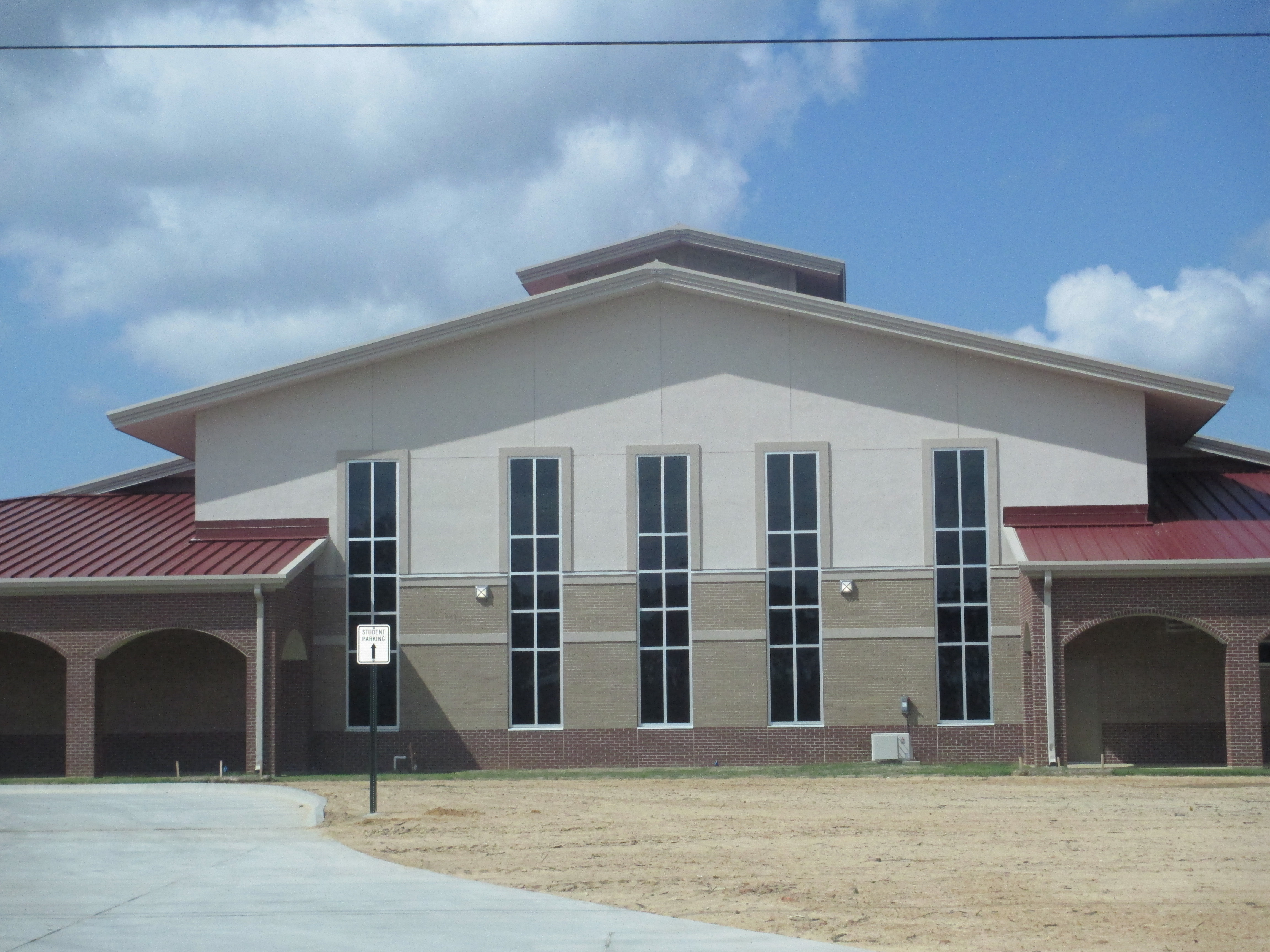 I took photo with Canon camera of new Northwest Louisiana Technical College building off Interstate 20 in Minden, LA.